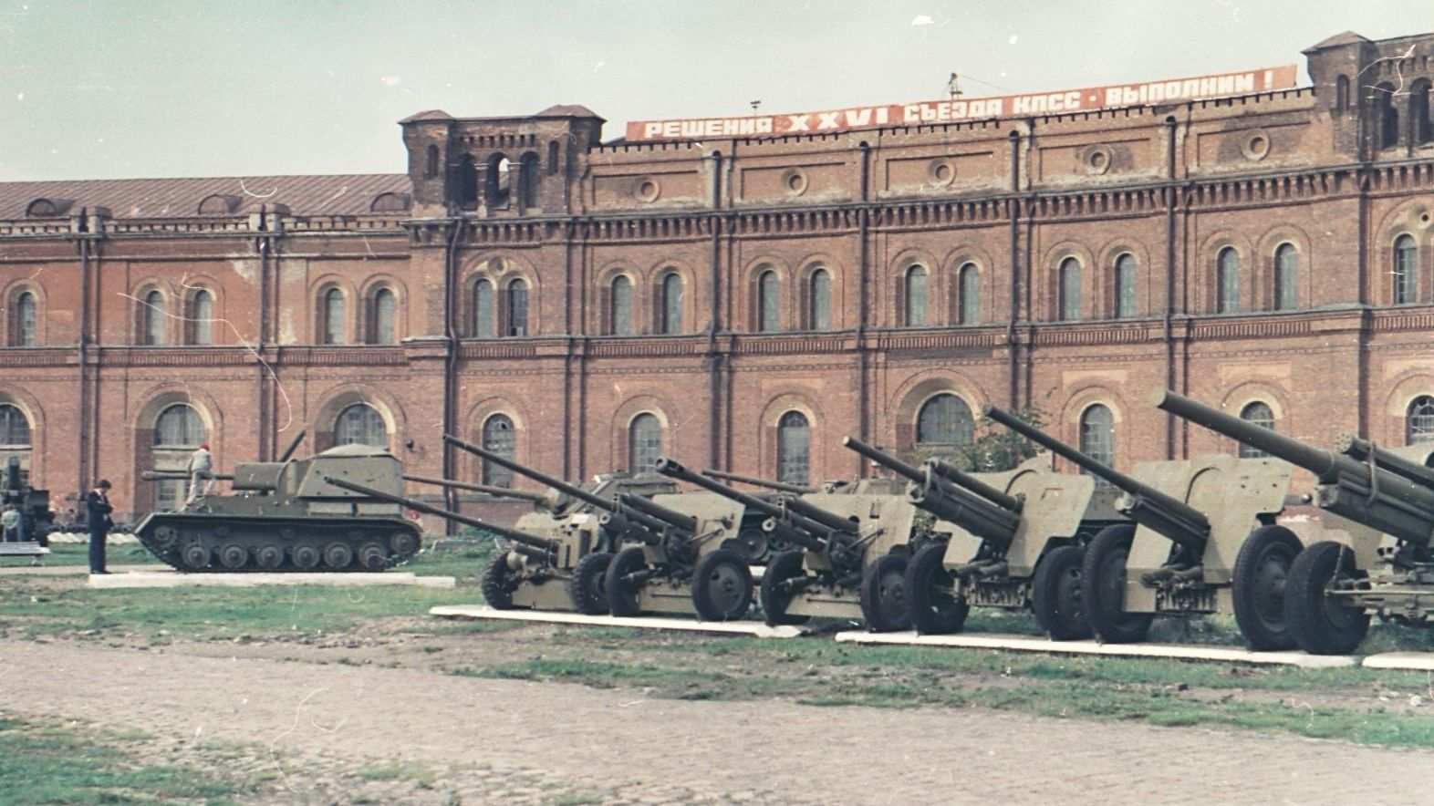 Кронверк, Ленинград, 1983 год, фотопленка ORWOCOLOR NC-19